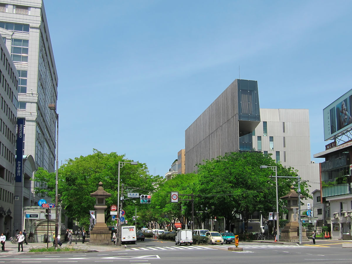 Omote-sando Ave. Aoyama, Tokyo